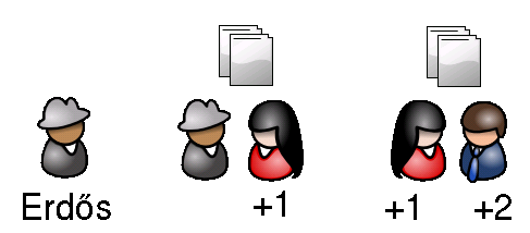 A simple diagram to explain Erdős numbers. If Alice collaborates with Paul Erdős on one paper, and with Bob on another, but Bob never collaborates with Erdős himself, then Bob is given an Erdős number of 2, as he is two steps from Erdős.